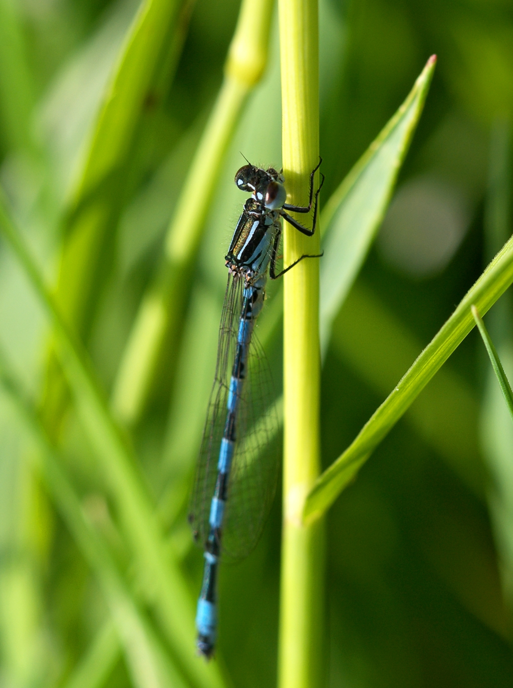 Picture of Coenagrion mercuriale.